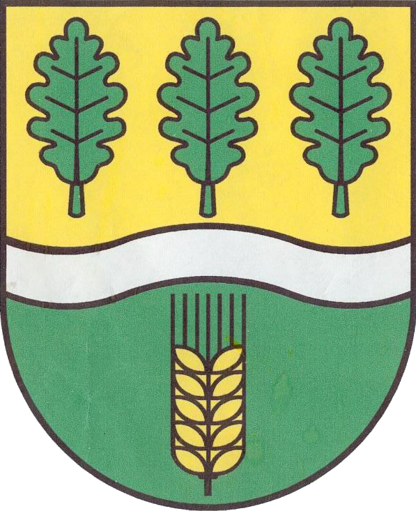 Coat of Arms of Schelkau